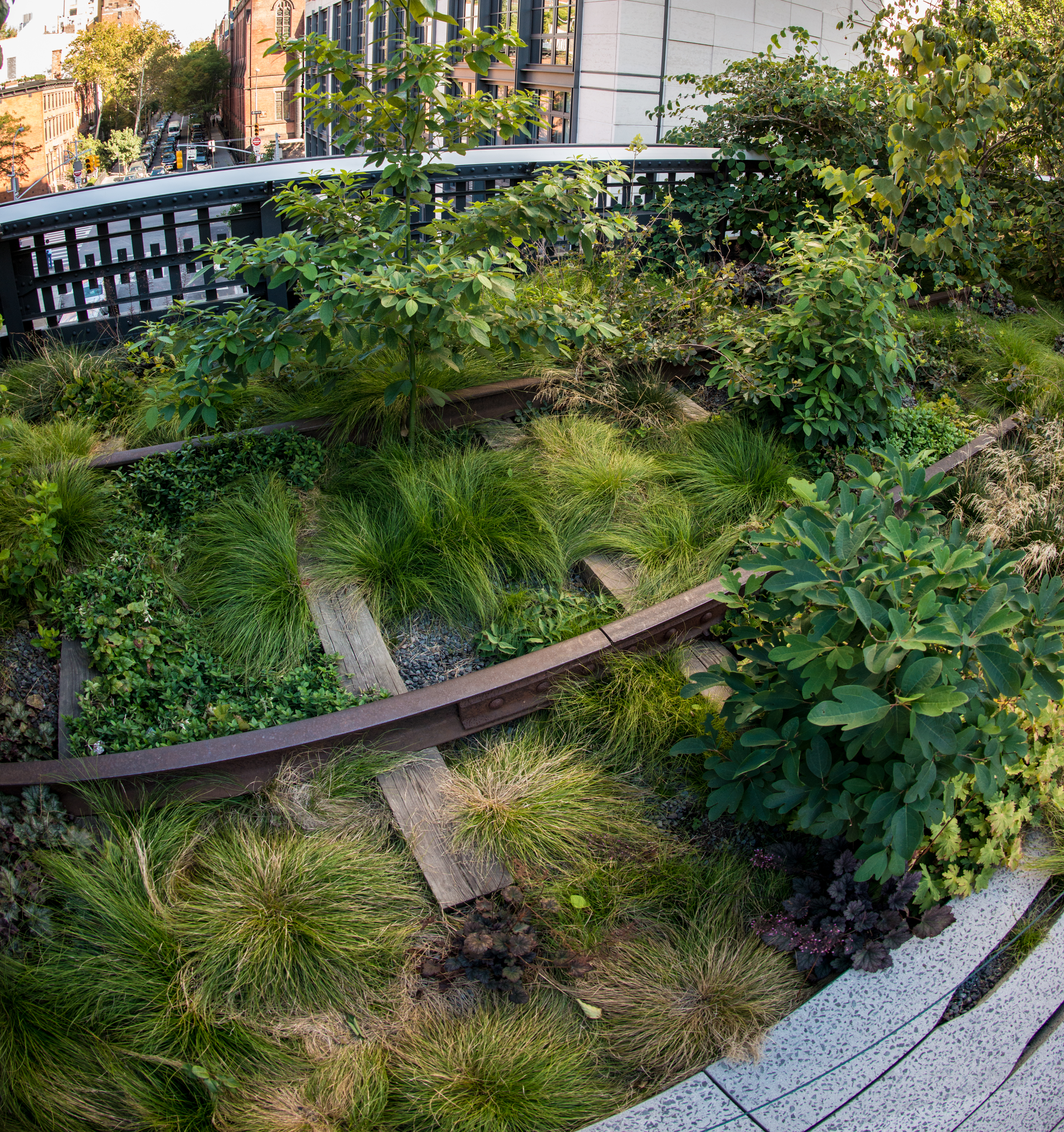 Cultivated green spaces are visible from and on the High Line, an elevated railway line owned by the City of New York in NY on Tuesday, Sep. 15, 2015. Today, the High Line is a 1.45-mile-long linear public park maintained, operated, and programmed by Friends of the High Line, in partnership with the New York City Department of Parks and Recreation opened in 1934. USDA photo by Lance Cheung.